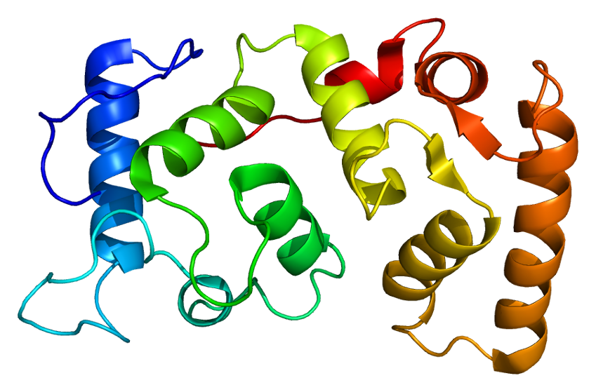 Structure of the CIB1 protein. Based on PyMOL rendering of PDB 1dgu.